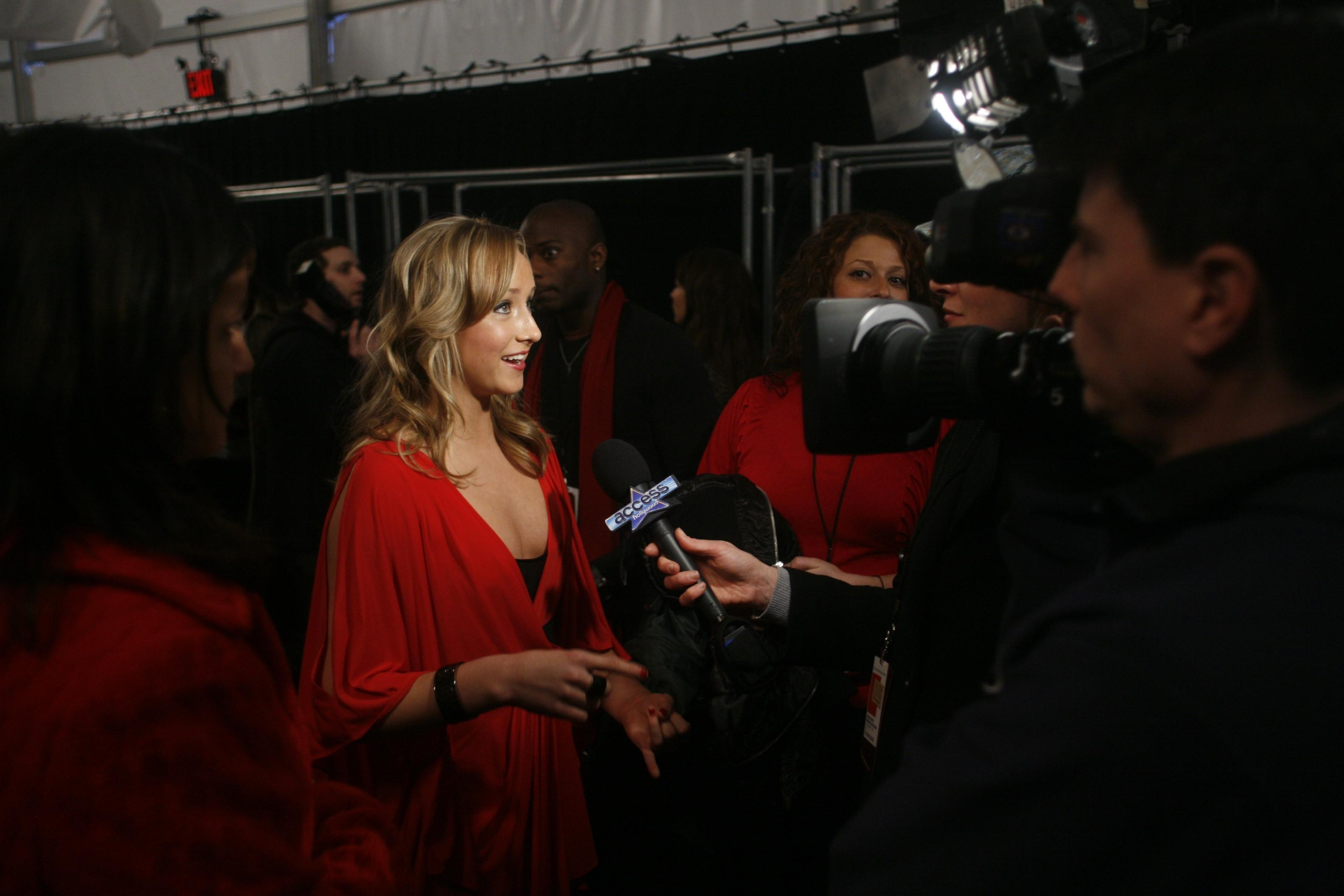 Nastia Liukin backstage at the 2009 Heart Truth fashion show